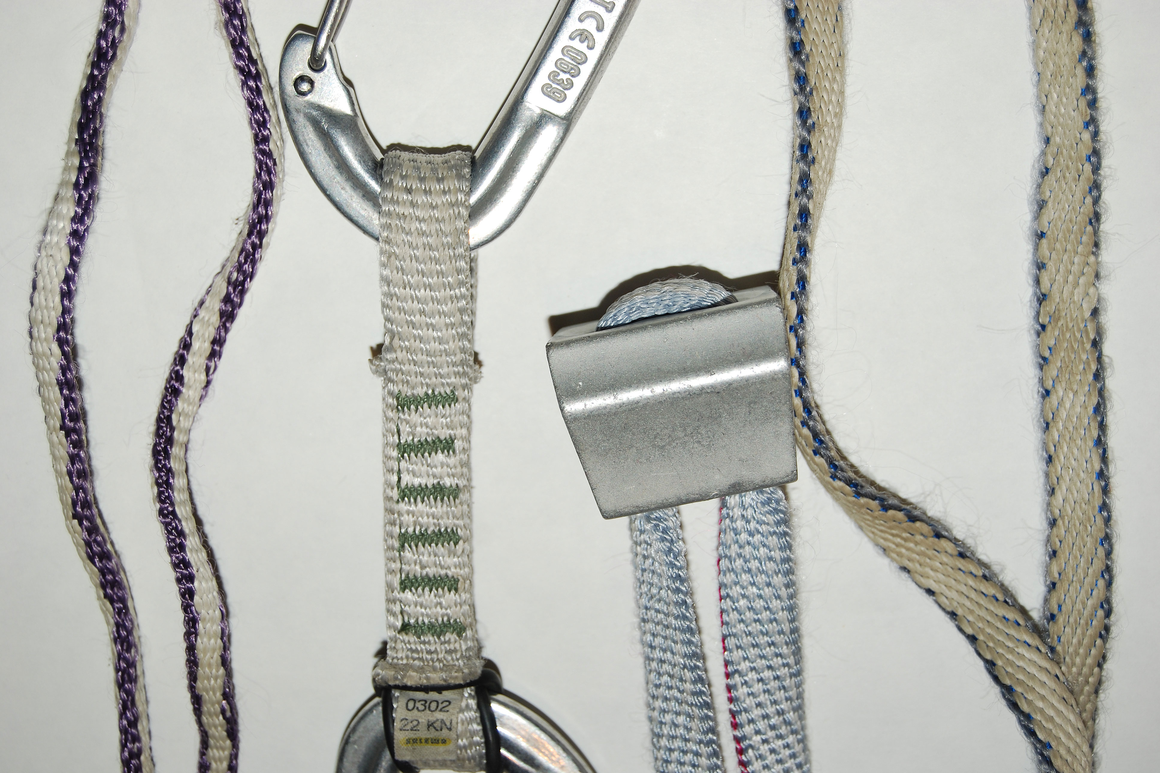 Climbing equipment made of ultra-high-molecular-weight polyethylene, sometimes called by its trademarked name Dyneema.